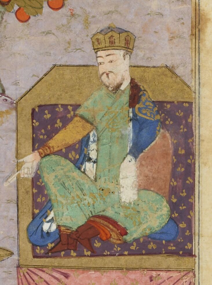 Guyuk khan image from a Persian miniature by Abdullâh Sultân (atelier). Shîrâz